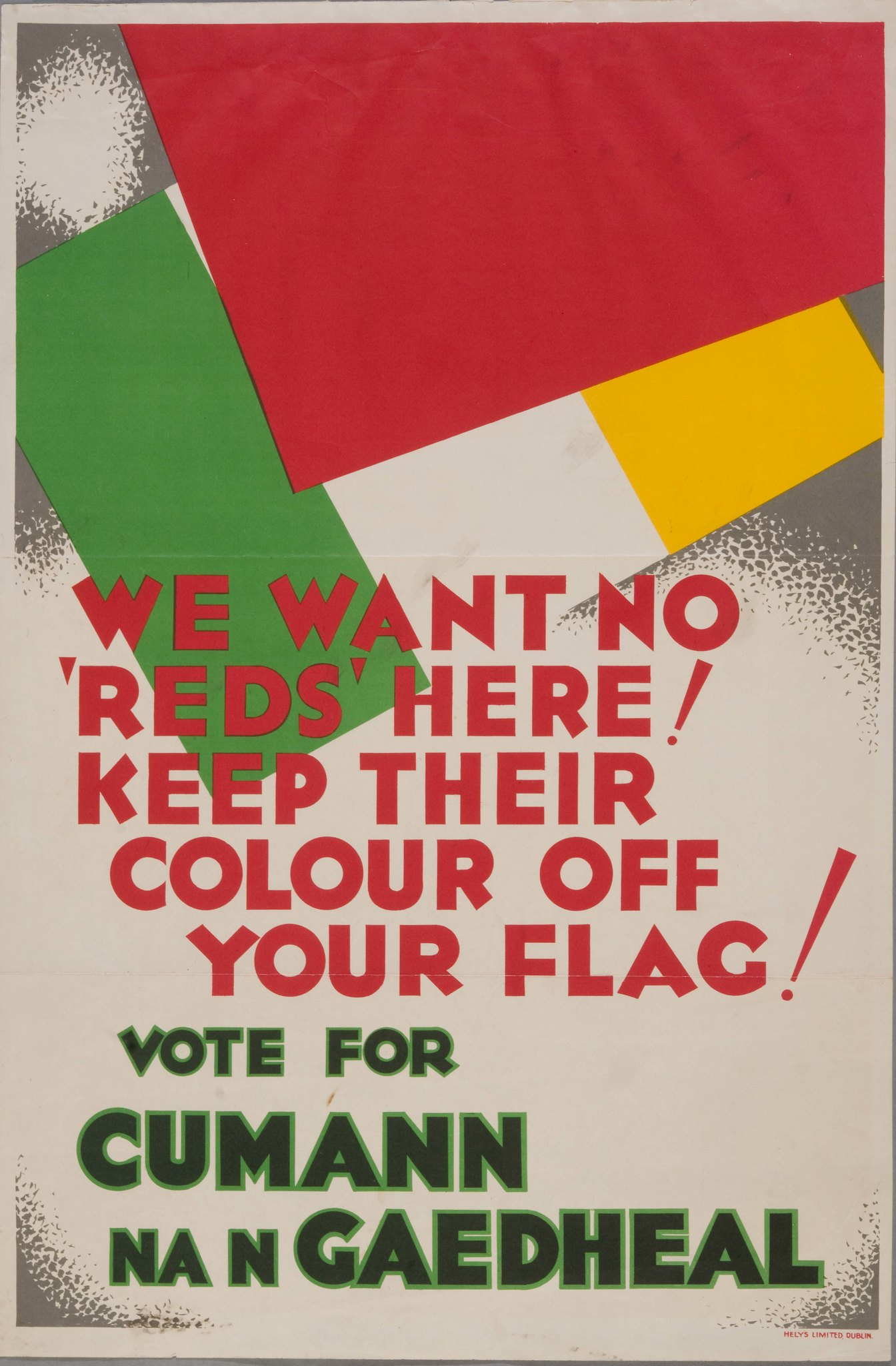 A circa 1932 election poster created by the Irish political party Cumann na nGaedhael with an anti-communist message.